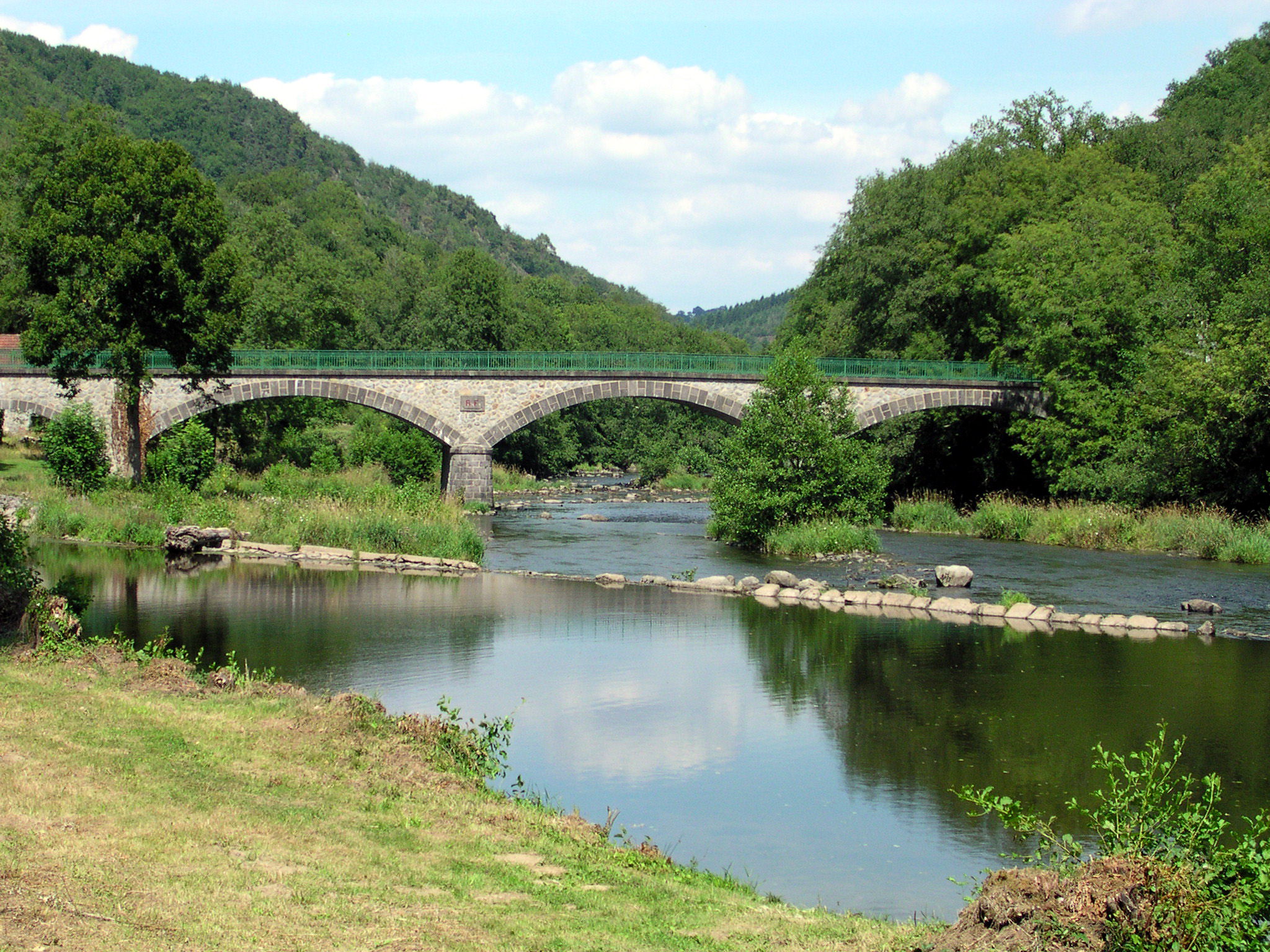 Bridge on the river Sioule after Chateauneuf-les-Bains (Auvergne, France). Auteur/Author Romary 10/10th août/August 2006